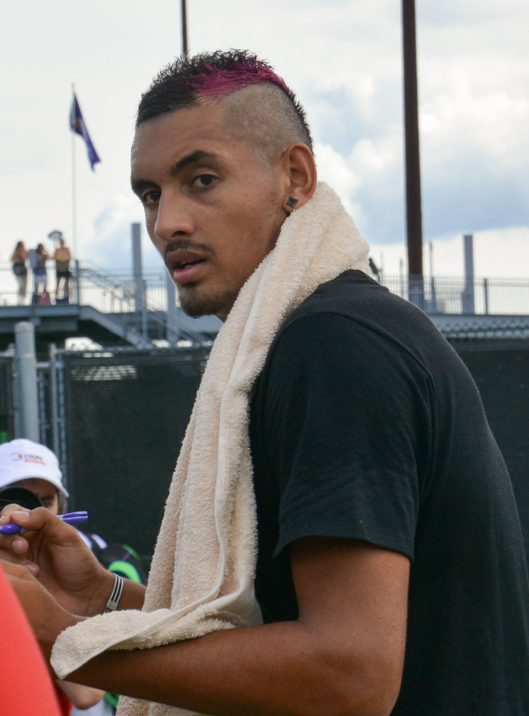 Nick Kyrgios signs autographs after a practice session. Coupe Rogers. Montreal 2015.